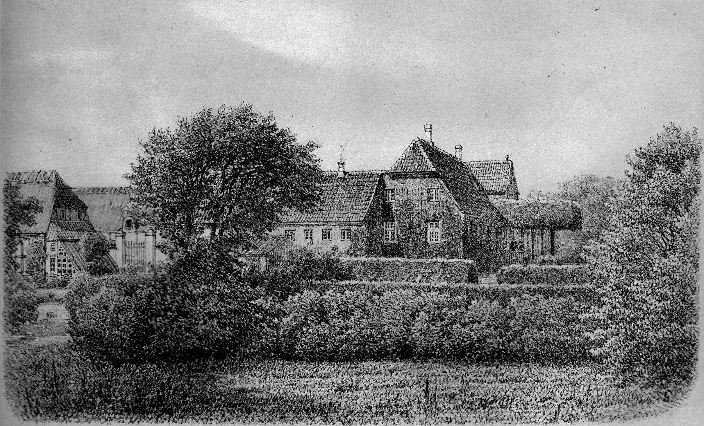 Scanned by myself from a copy of the old book in 2007. The book was graciously lent to me by Det Kongelige Garnisonsbibliotek.